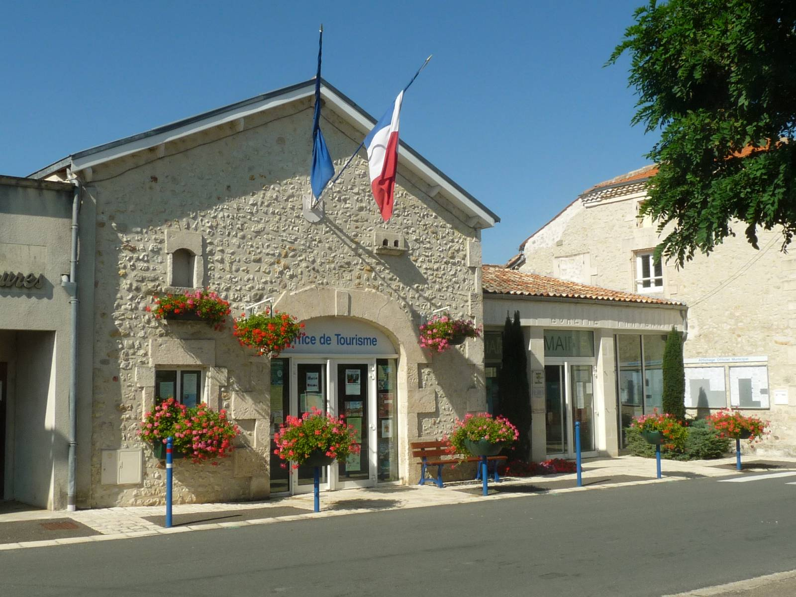 town hall of Brossac, Charente, SW France